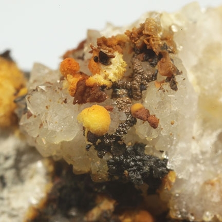 Foggite Locality: Palermo No. 1 Mine (Palermo No. 1 pegmatite; Hartford Mine; GE Mine), Groton, Grafton Co., New Hampshire, USA Dimensions: 2.6 cm x 1.8 cm x 1.3 cm A cool and rare representative specimen featuring orange-yellow groups of the calcium aluminum phosphate, foggite from Pod No. 3 of the Palermo No. 1 Mine. Foggite is named after Forrest F. Fogg, a mineral collector of Penacook, New Hampshire, who provided the first material. This mineral is only found in four world localities, and the most famous material is from the Palermo No. 1 Mine. This particular piece was mined in 1975. For reference, the label states that there is an unknown mineral on the piece as well.